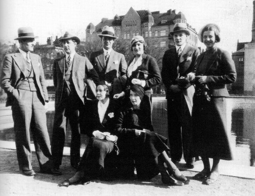 Actors of Finnish National Theatre: Tauno Palo, Rafael Pihlaja, Aarne Leppänen, Glory Leppänen, Unto Salminen and Kyllikki Väre. Sitting at the from: Rauni Luoma and Sylvi Sakki. Summer tour 1933.